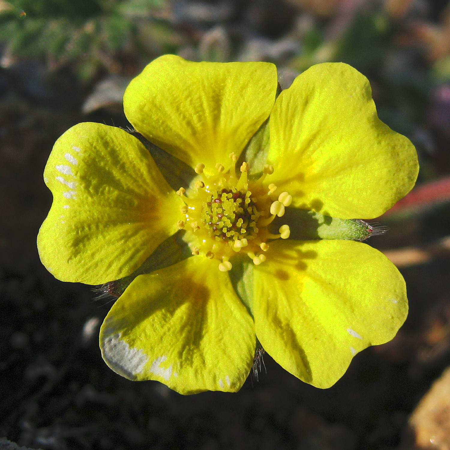 Potentilla hookeriana photographed in evening sun near the airport in Upernavik, Greenland. The species identification is not entirely certain. Leaves, which are cut out in this image from the the original could also indicate that the plant is the closely related species Potentilla nivea. However, I have afterwards (when I knew what to look for) positively identified other P. hookeriana in the area, but never seen a P. nivea. I therefore find it highly probable that it is a P. hookeriana. This image is a trimmed version with slightly increased saturation, and minor colour-curve adjustment. An unsharp mask with pixel radius 1.0 and ammount of approx. 50% has been applied.